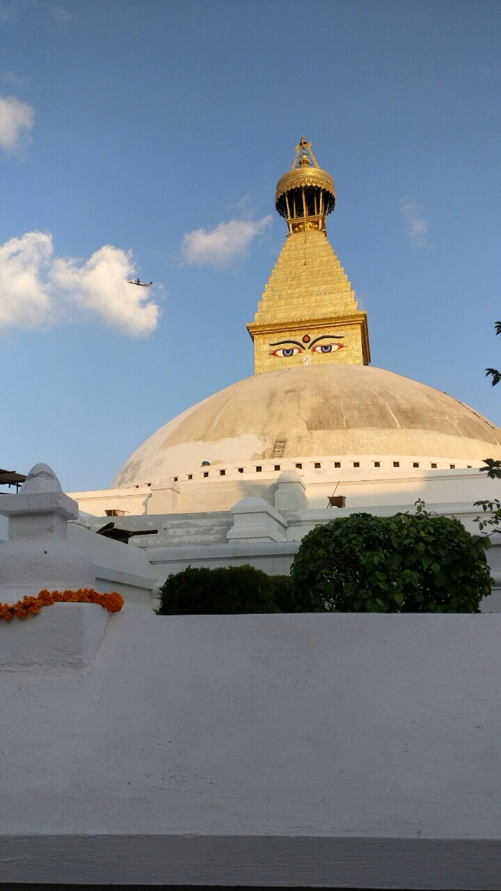 Renovation of Boudhanath Stupa by local initiation. This is the major renovation after the devastating earthquake in Nepal in 2014, April.